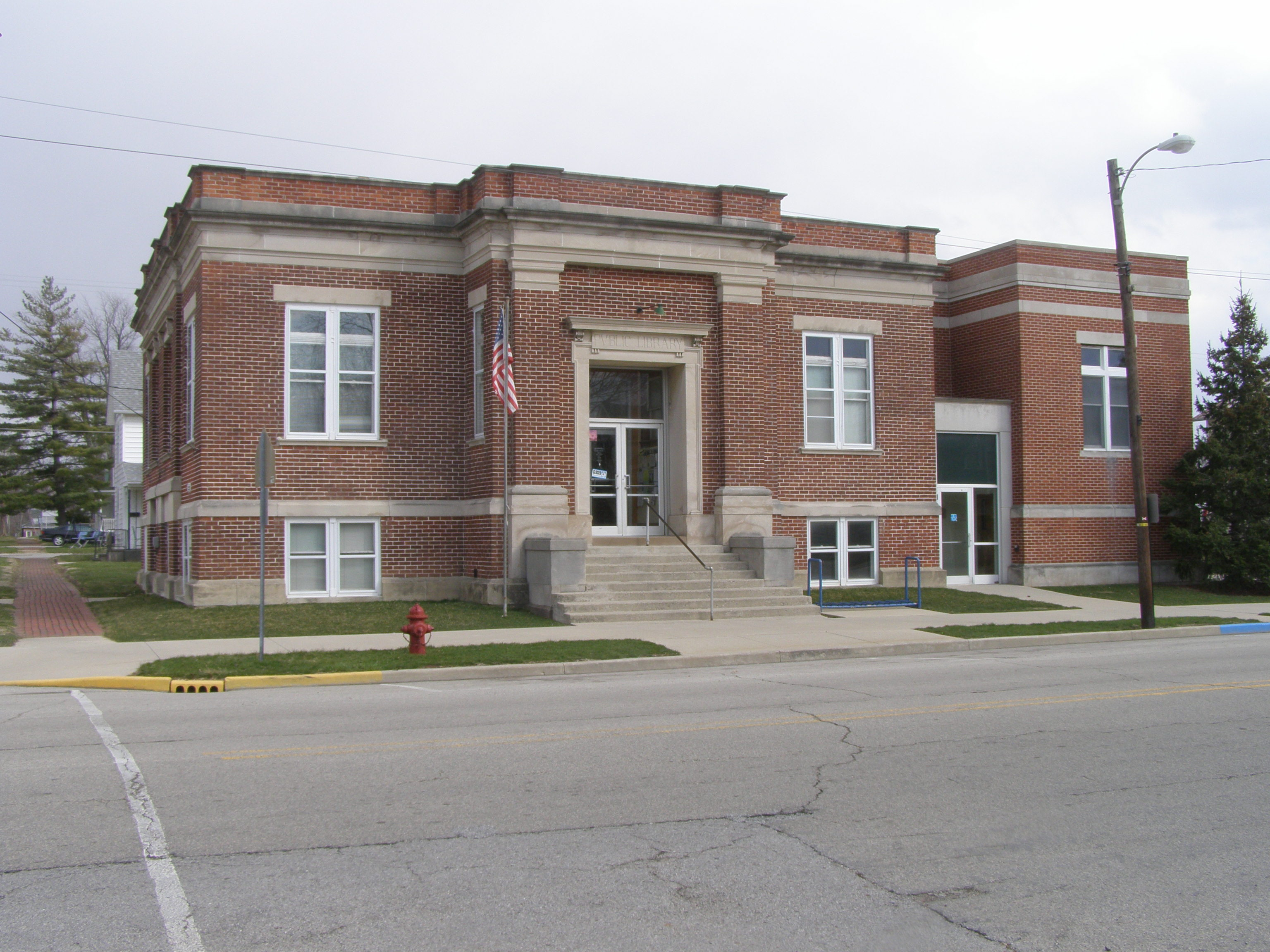 Montpelier Carnegie Library, Blackford County, Indiana.